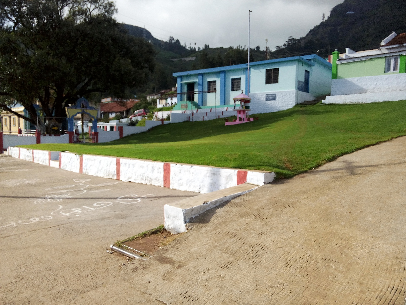 Lord Krishna Temple, Recently erected Mahatma Gandhiji's Statue and the old Community hall on view